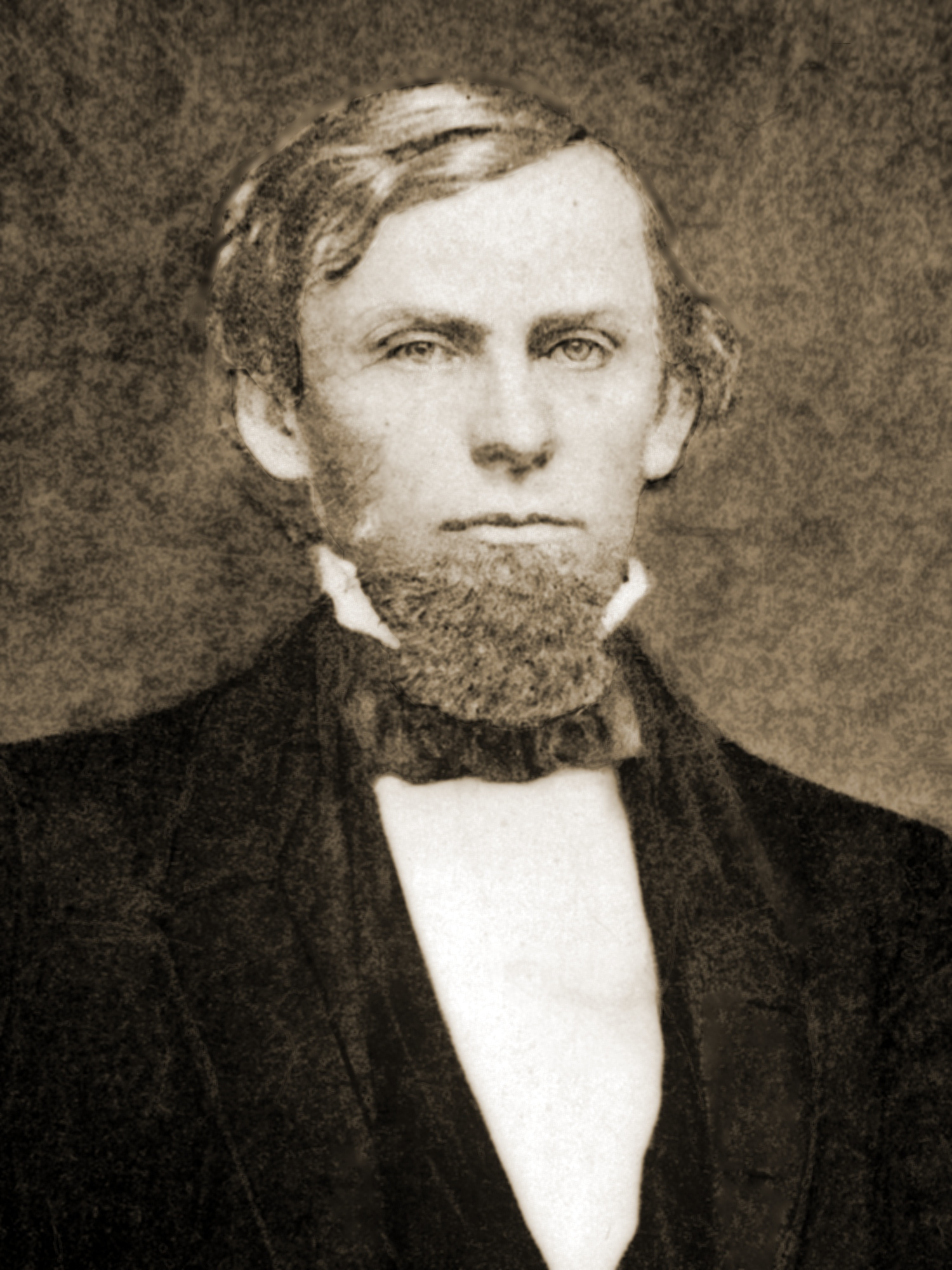 Picture of Thomas C. Hindman